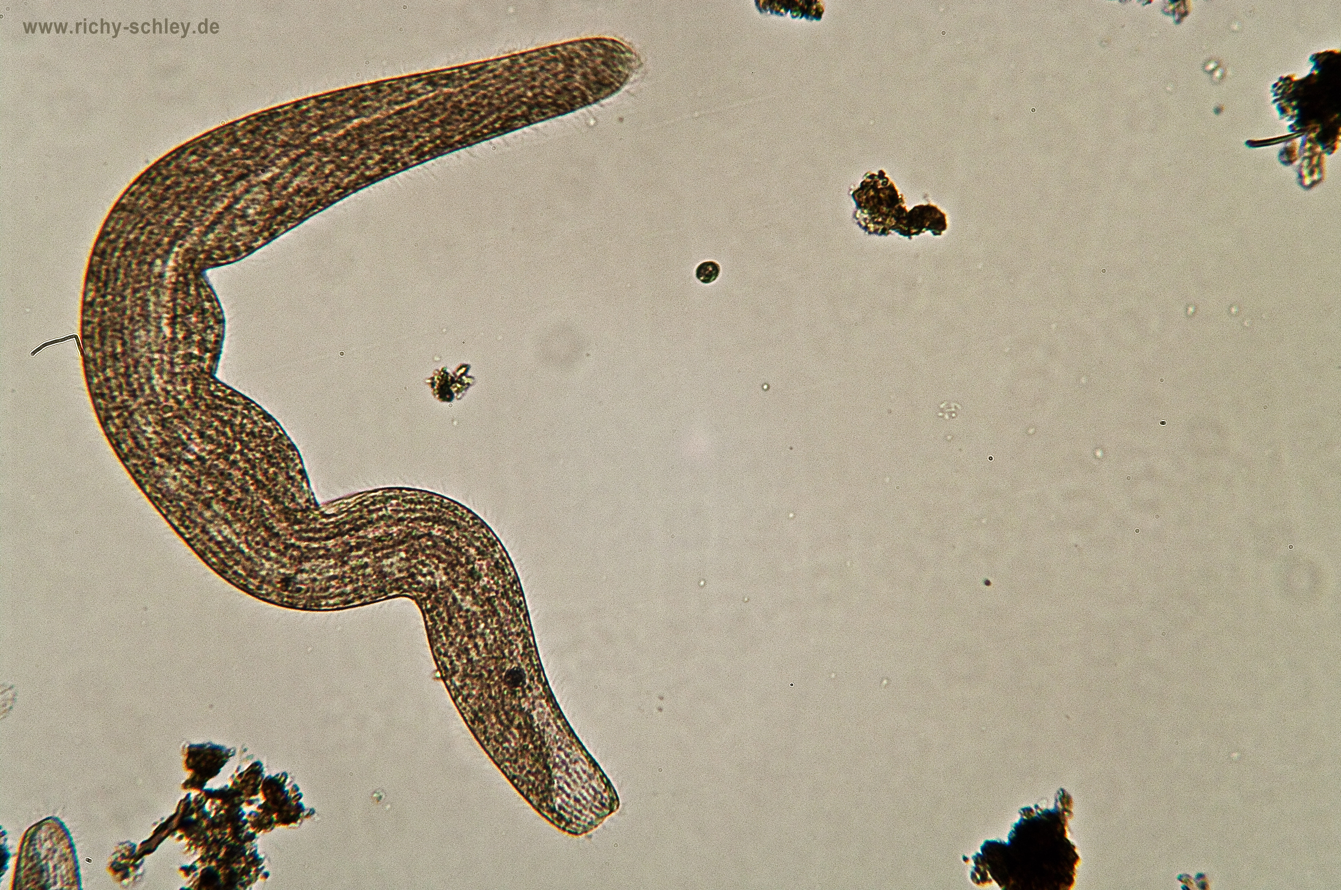 Nematoda from a pond / Fadenwurm aus einem schmutzigen Tümpel